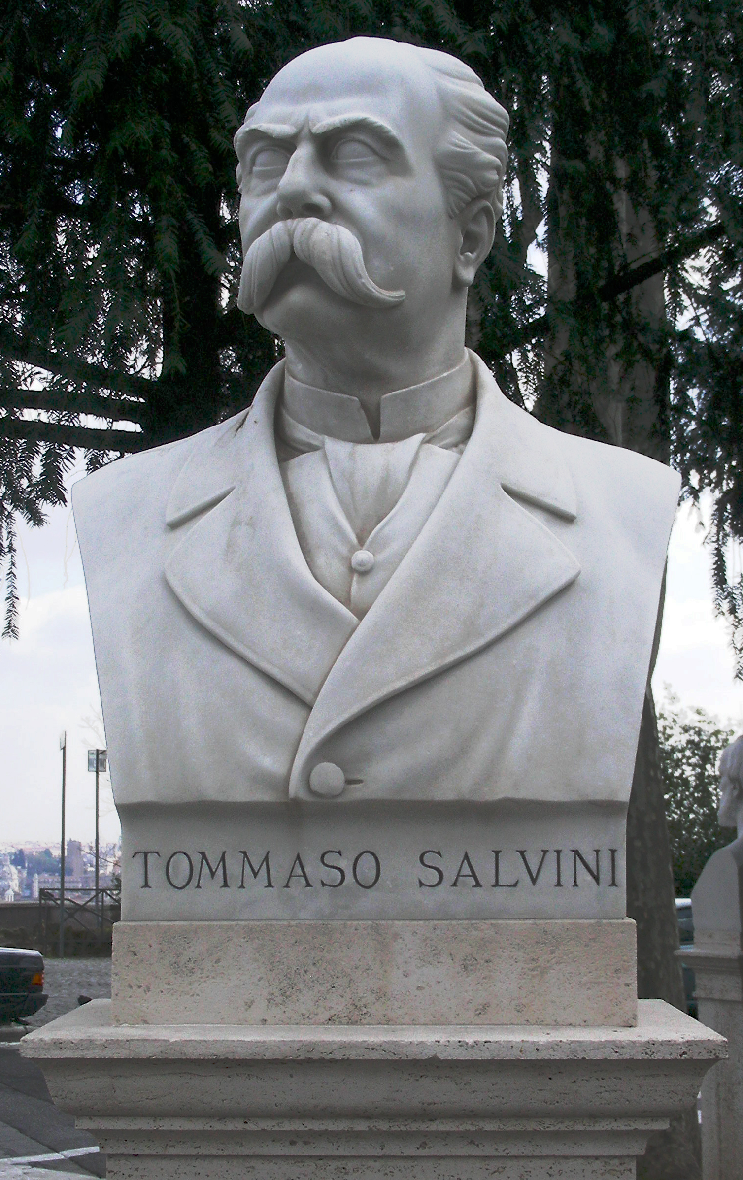 Rome, park of Gianicolo, bust of Tommaso Salvini (1829-1915), by Vittorio Macoratti (1957)